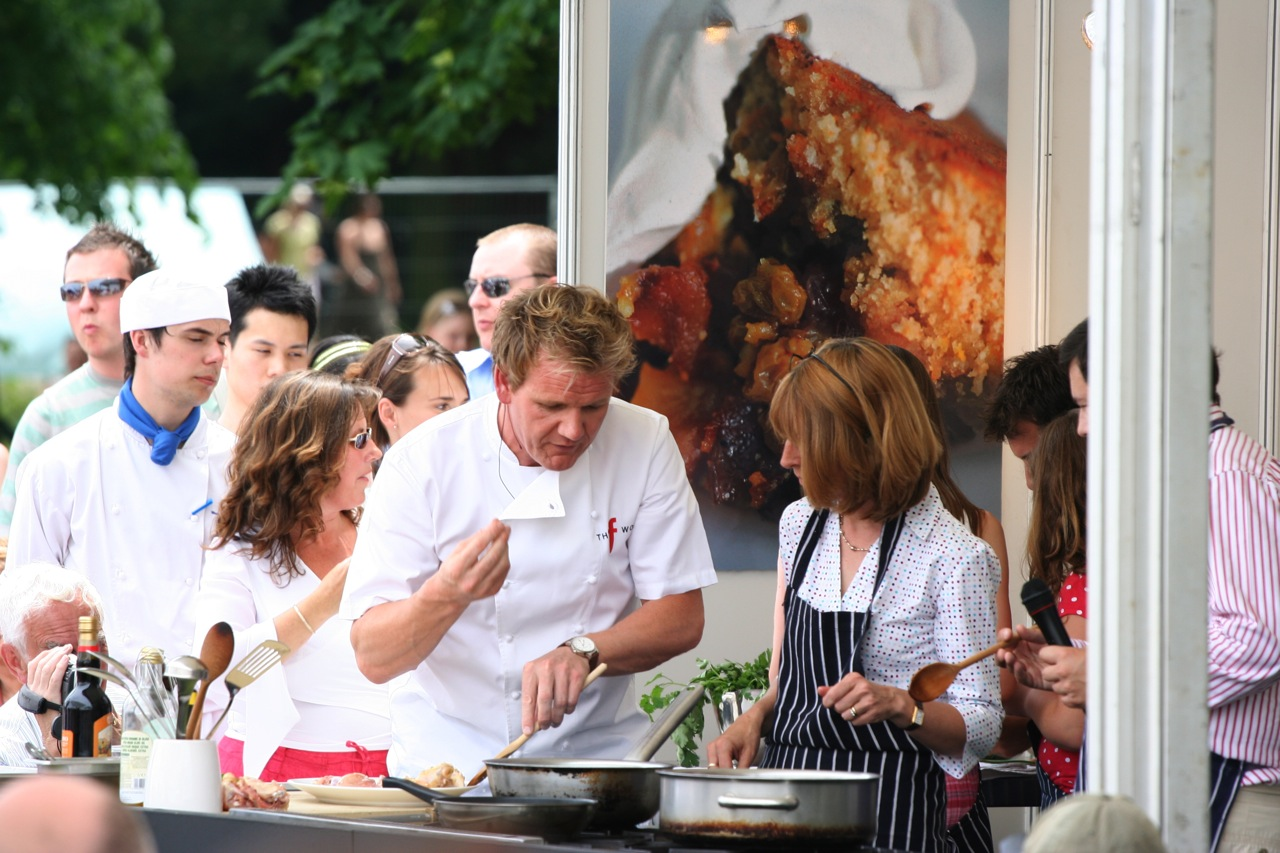 Please feel free to use this photo on your website. A link back to would be appreciated alongside credit.